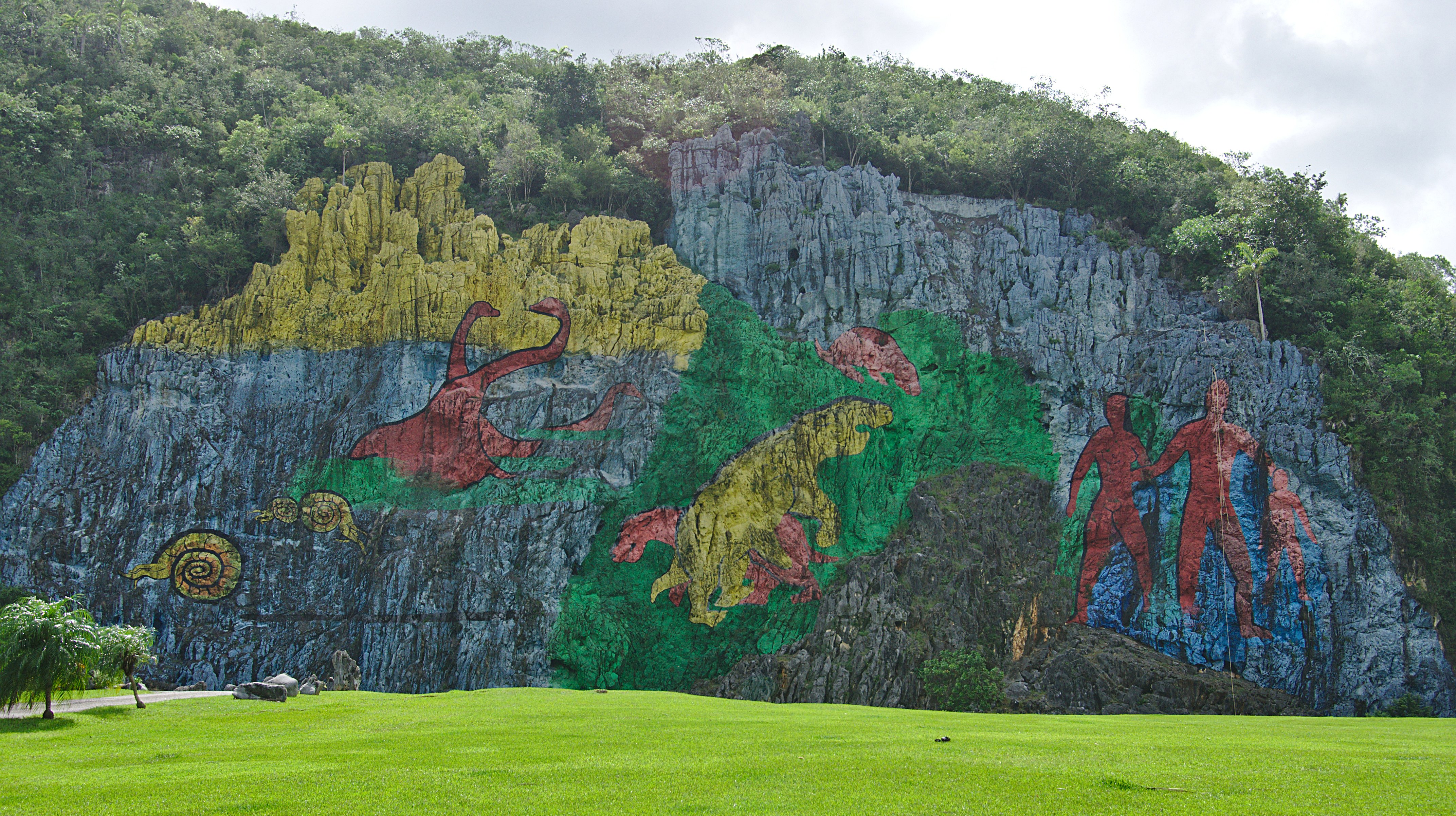 Mural de la Prehistòria in Viñales Valley, Cuba